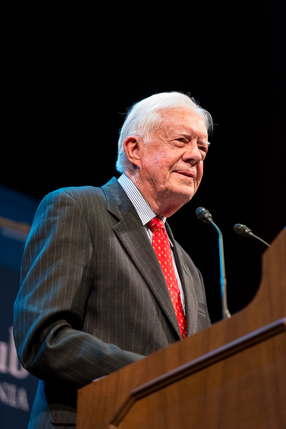 2013.02.24 RITGER_Jimmy Carter_041